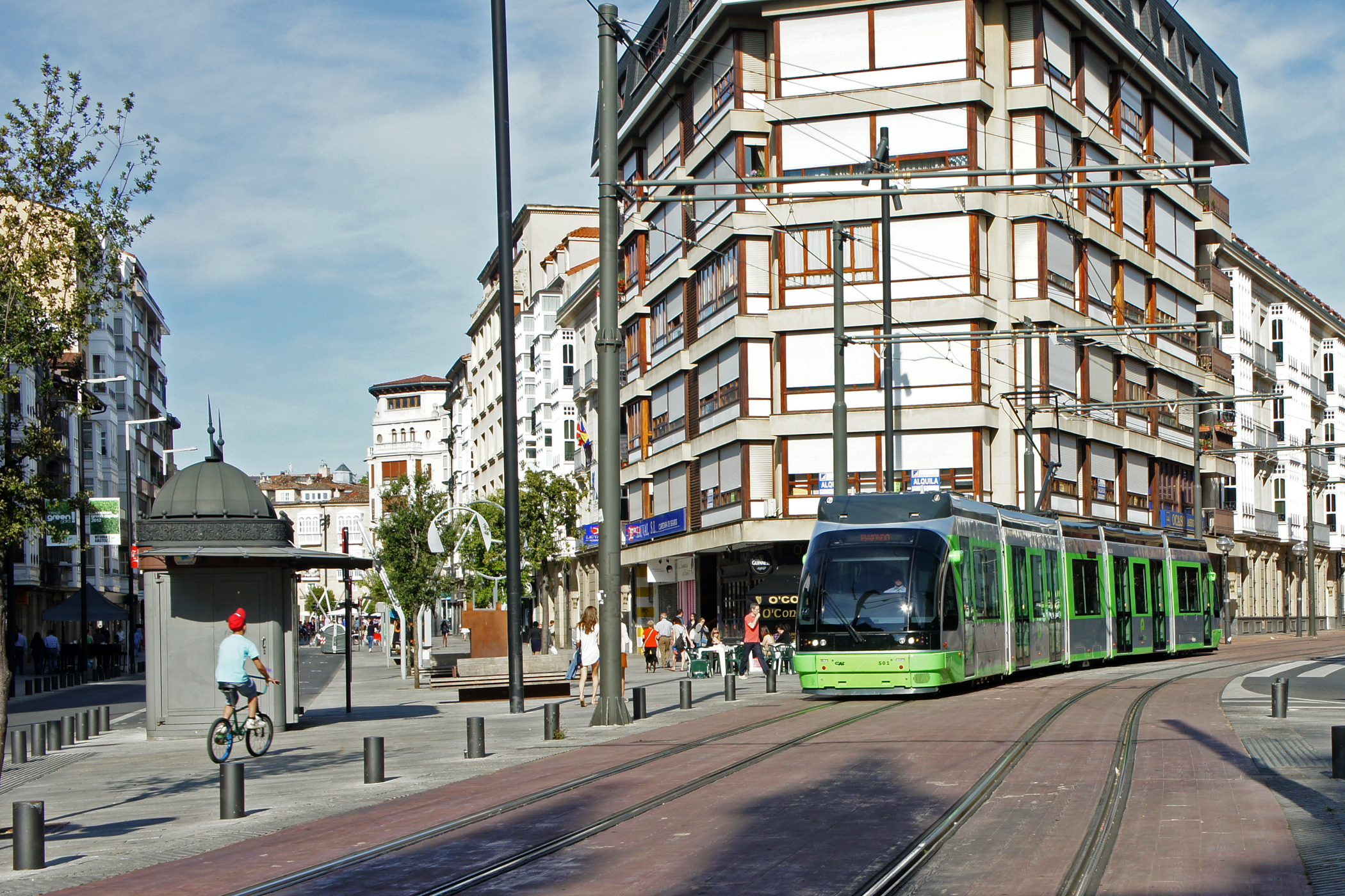 EuskoTran Vitoria-Gasteiz, downtown Vitoria, Basque Country, Spain